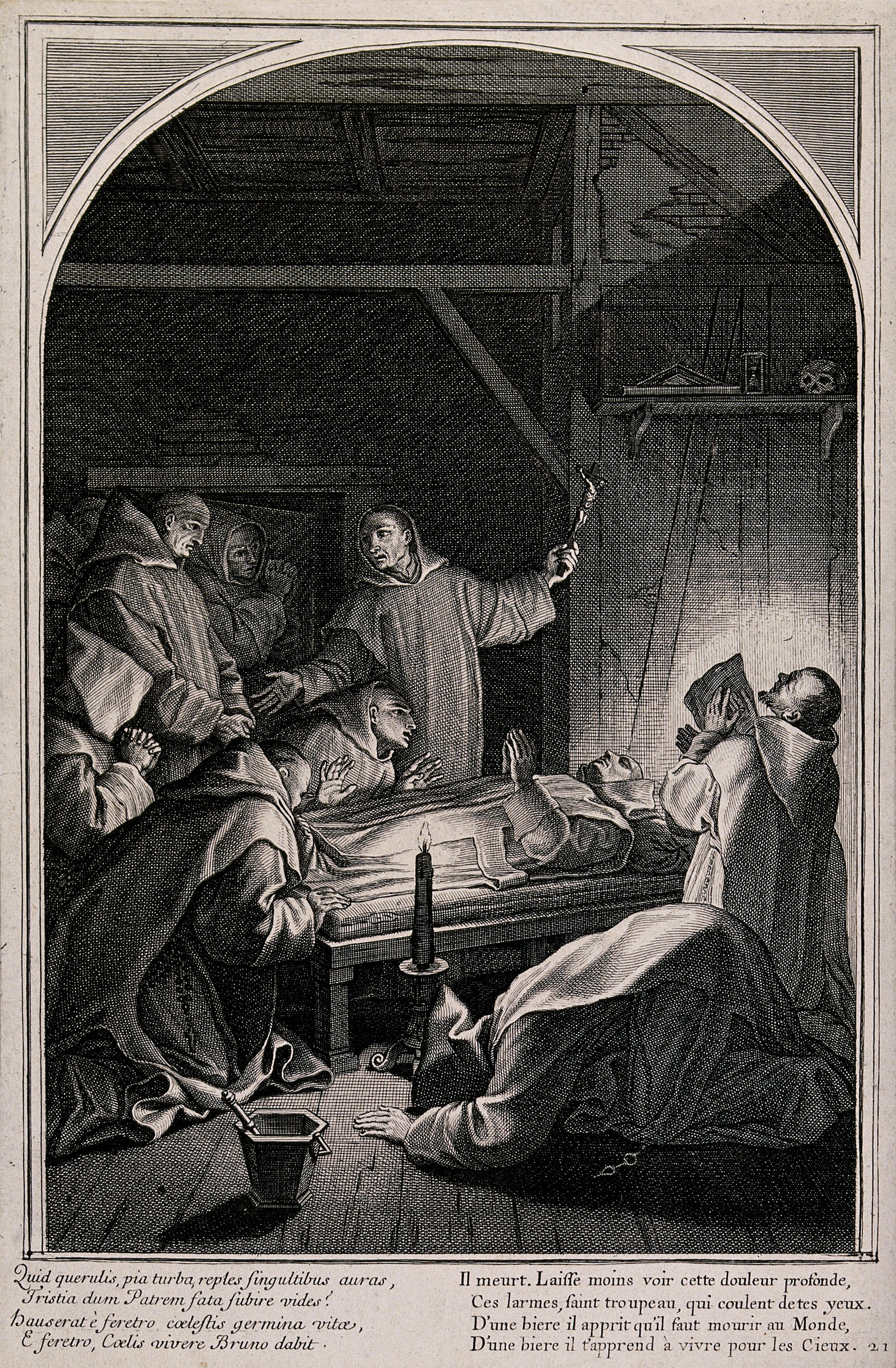 The body of Saint Bruno is laid out in state and surrounded by mourning Carthusian monks. Etching with engraving after E. Le Sueur. Iconographic Collections Keywords: Eustache Le Sueur